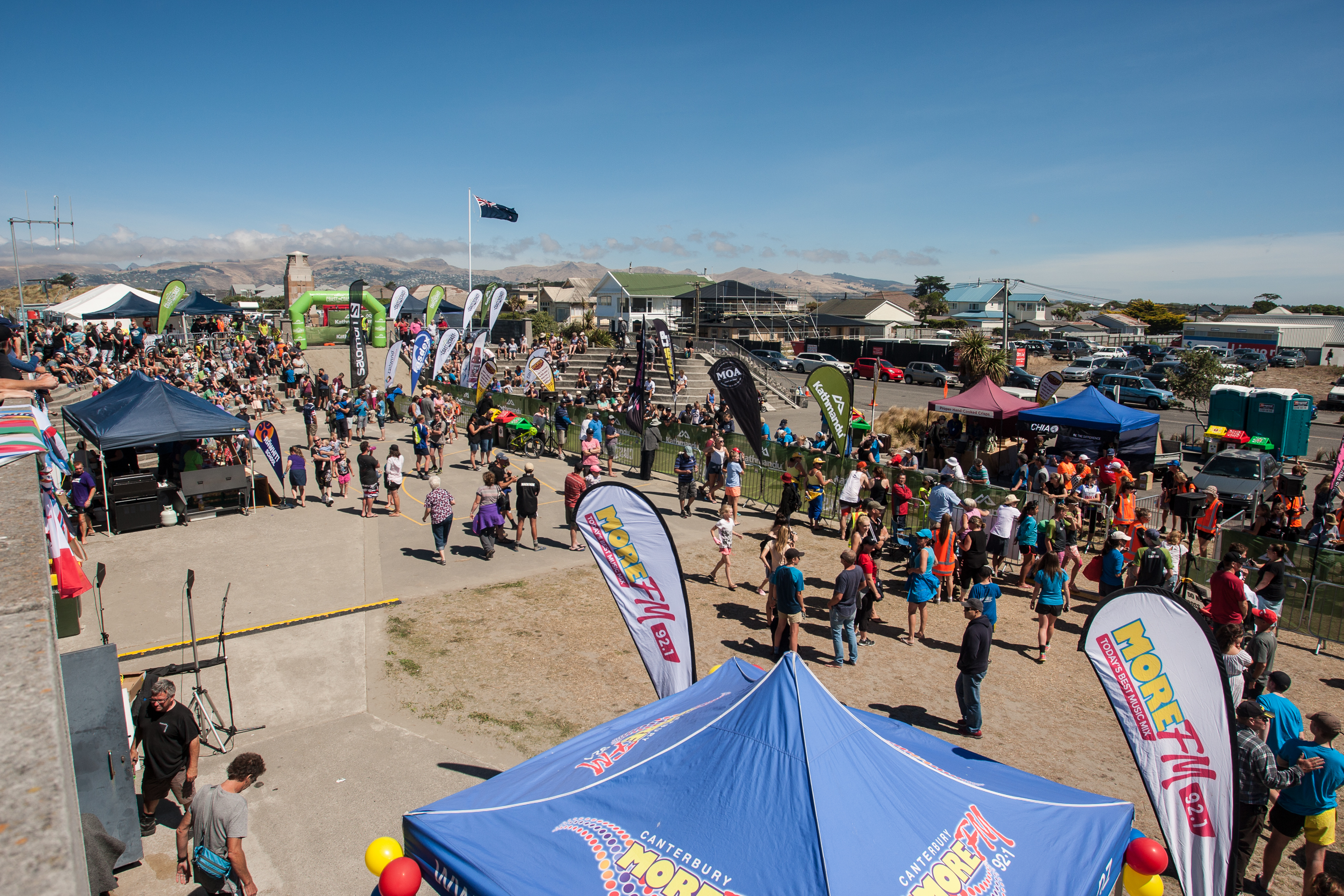 At the New Brighton finish line for the 35th Coast to Coast multi-sport race. The first of the teams and the two-day eventers have all ready crossed the finish line, but it is at least two hours till the first of the single day racers get in.